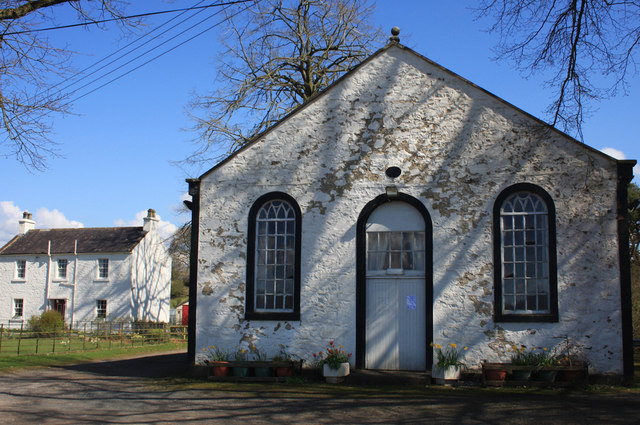 Wamphray Hall What is now the Wamphray Parish Hall was built around 1850 as the United Presbyterian Church. Behind it is the old manse, now a private residence.